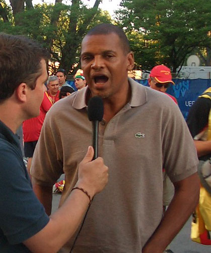 Bernard Lama, French footballer and coach